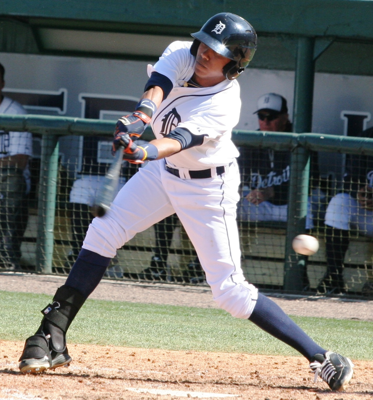 Harold Castro bats for the Detroit Tigers during spring training in 2013.